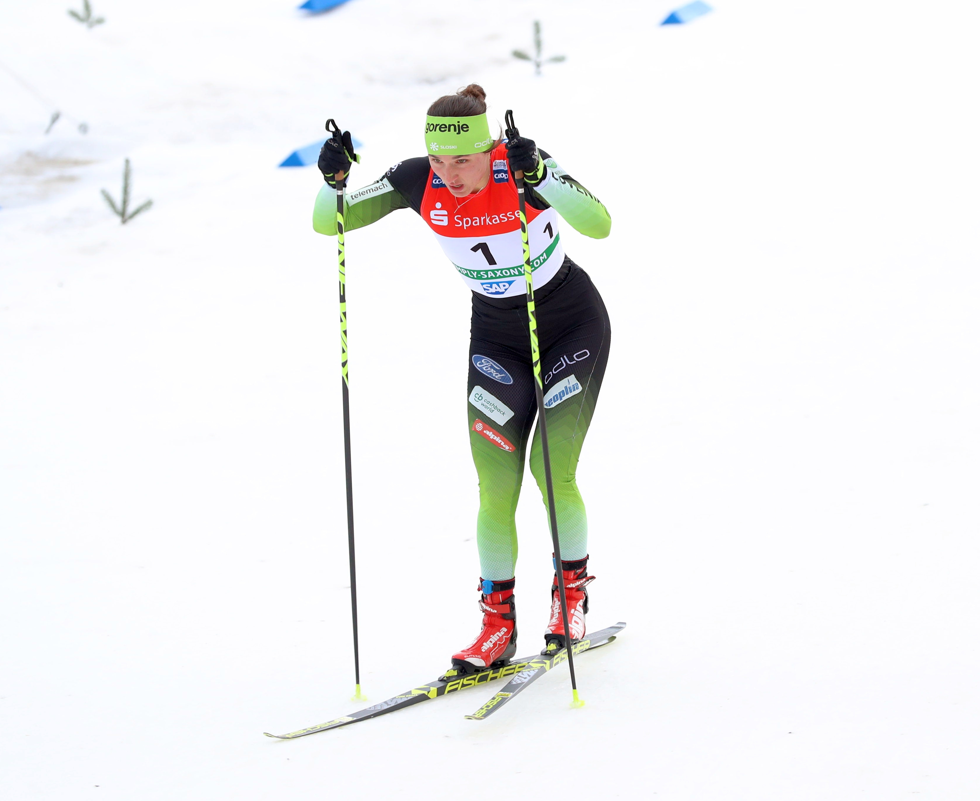 Women's Qualification at the FIS Cross-Country World Cup Dresden 2019 (1.6 km Free Sprint)